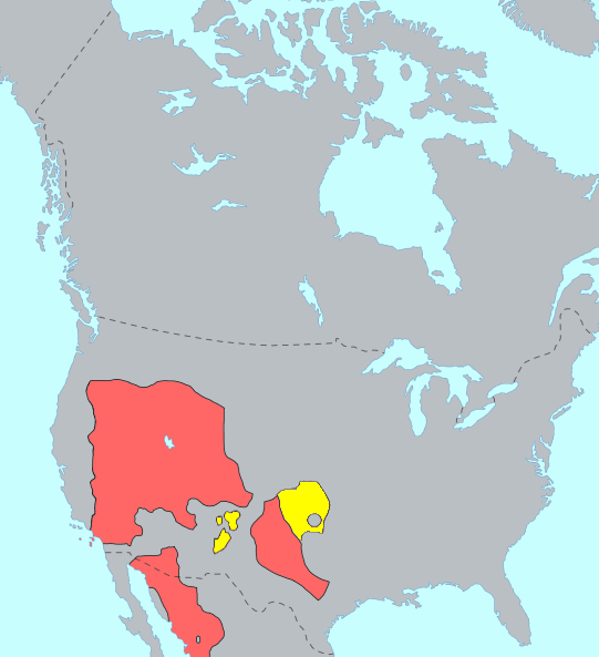 Uto-Aztecan Languages in Red, Tanoan languages in Yellow. (Does Not Show Extent in Mexico/Central America).